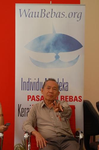 Khoo Kay Kim, Kuala Lumpur, Malaysia.